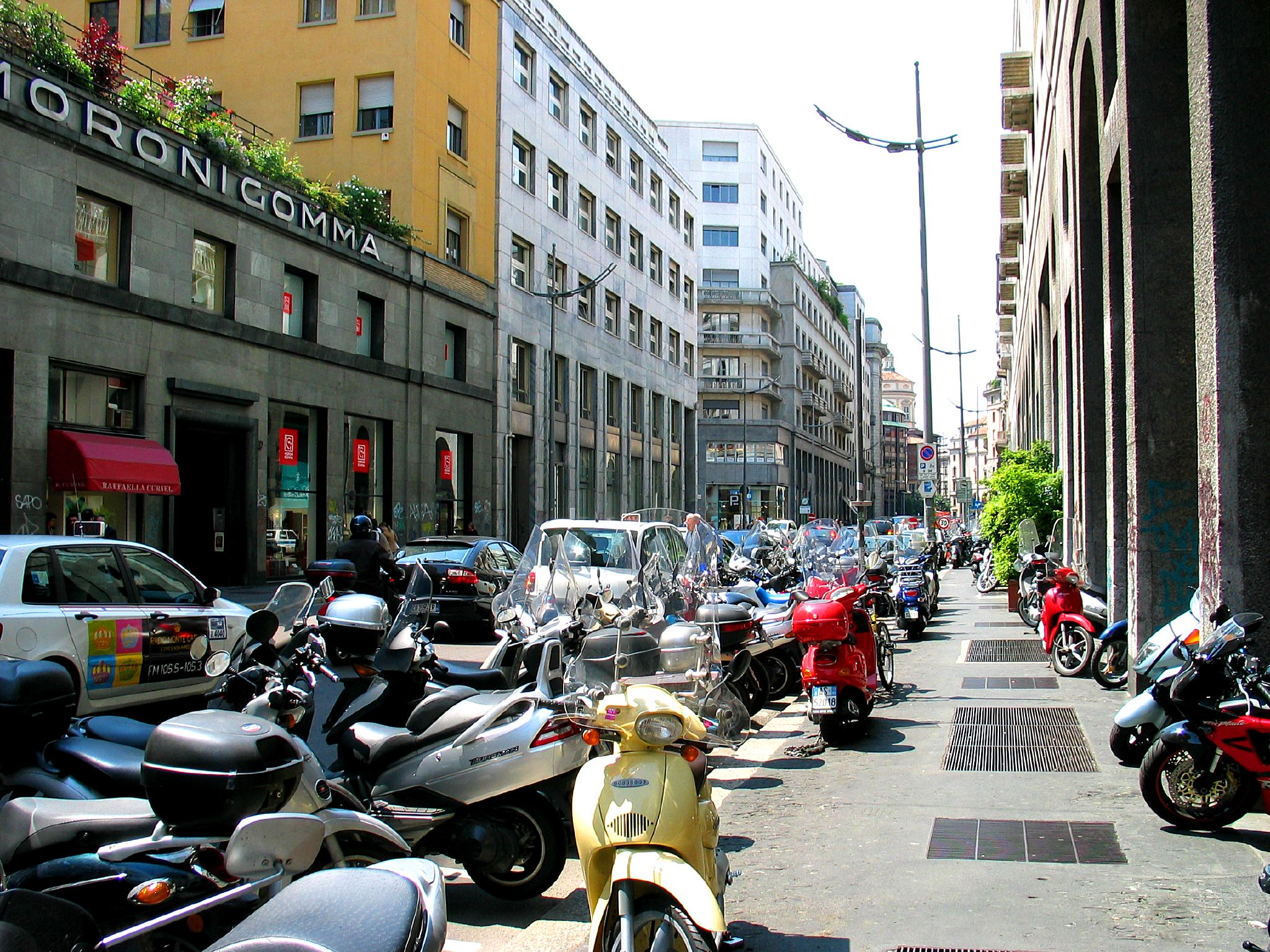 It's actually all of Italy that gives Vietnam a run for its money when it comes to motorbikes. At least the ones in Italy are more environmentally sensitive.